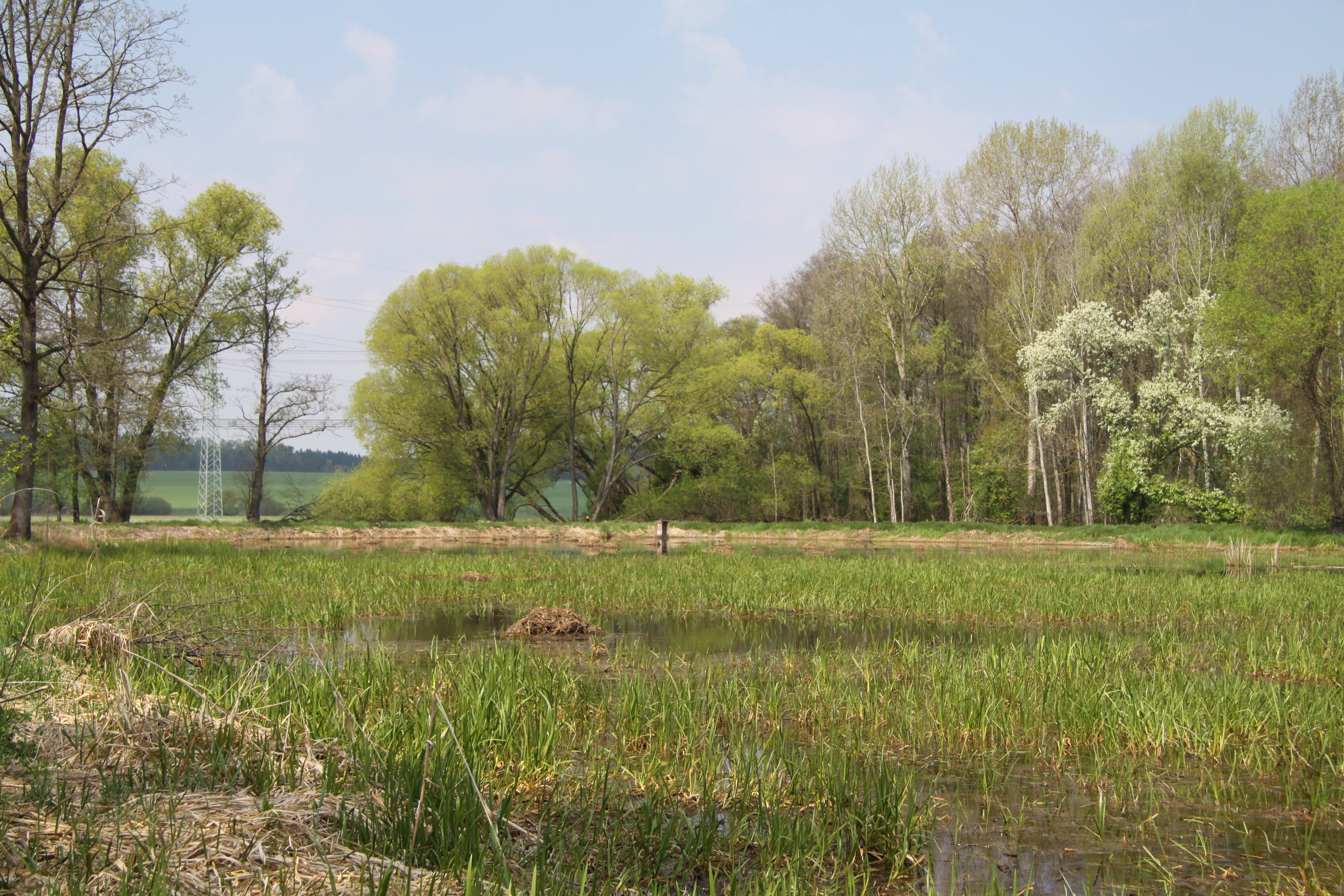 Natural reserve Radomilická mokřina near Radomilice, České Budějovice District, Czech Republic